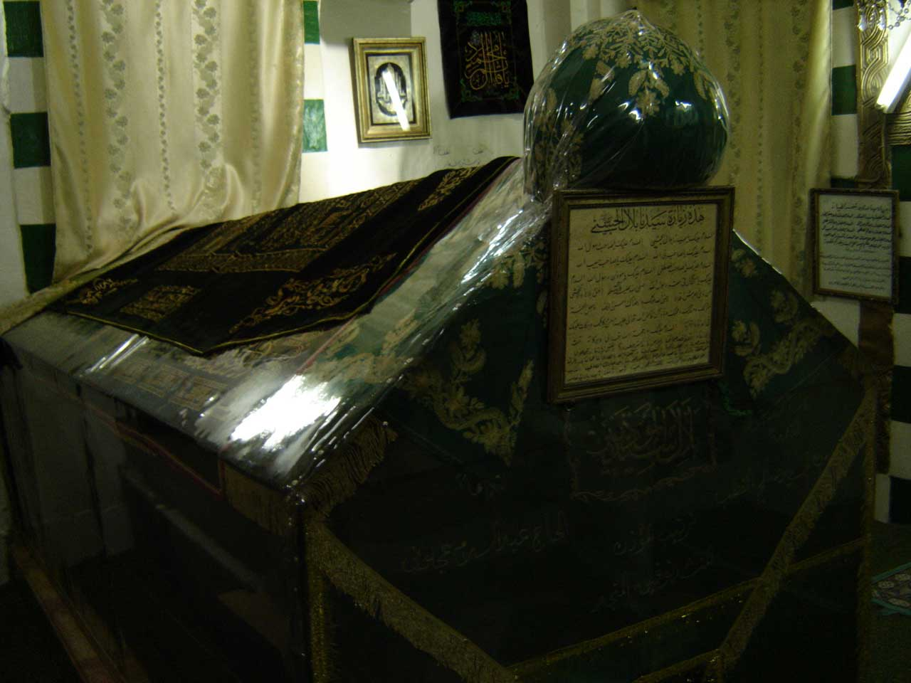 Baab Sagheer: Tomb of Bilal-al-Habashi, the first Mu'adh-dhin.